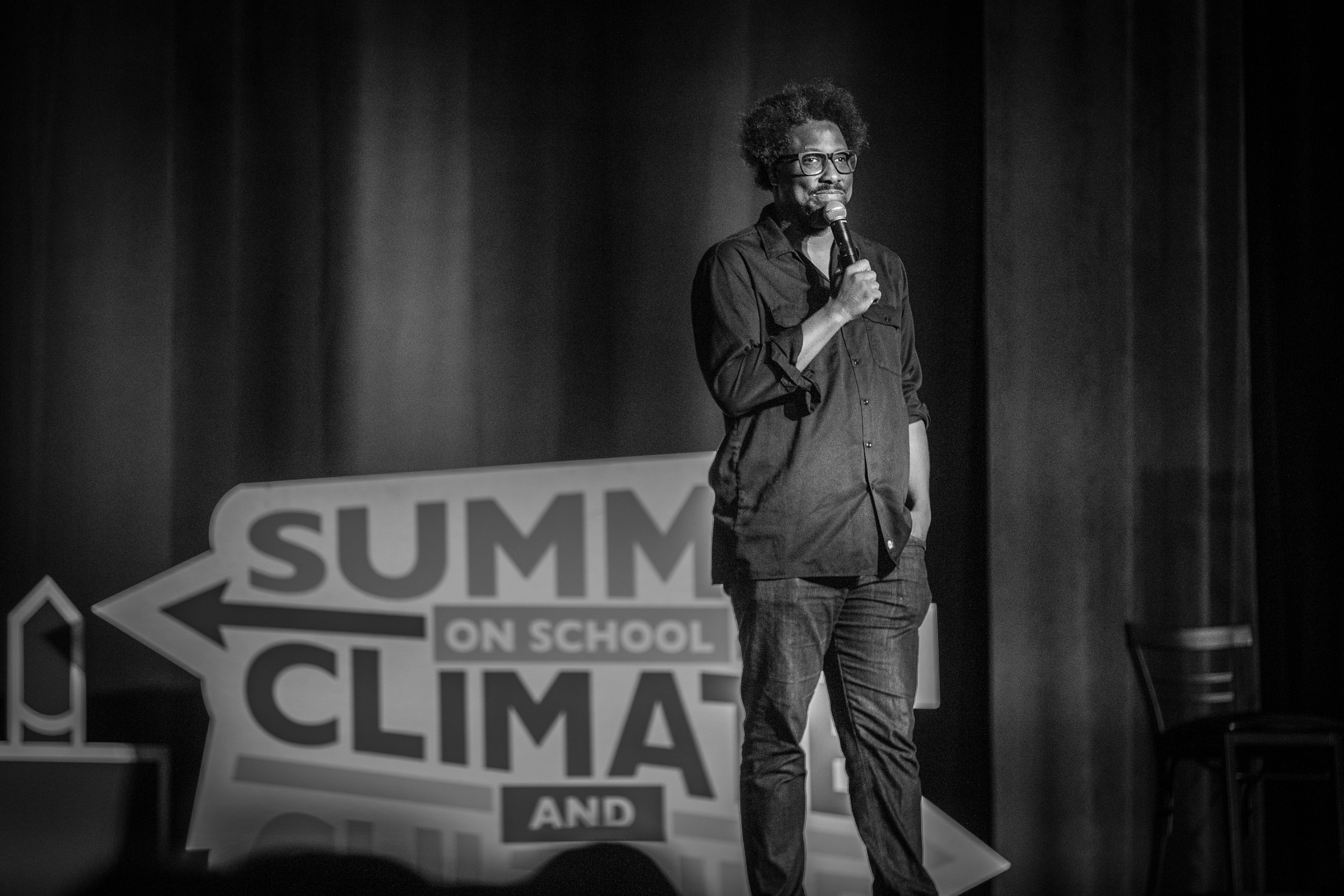 W. Kamau Bell on stage. Some photos shot for work but unused from the recent Summit on School Climate and Culture ... rendered in black and white to be artsy.